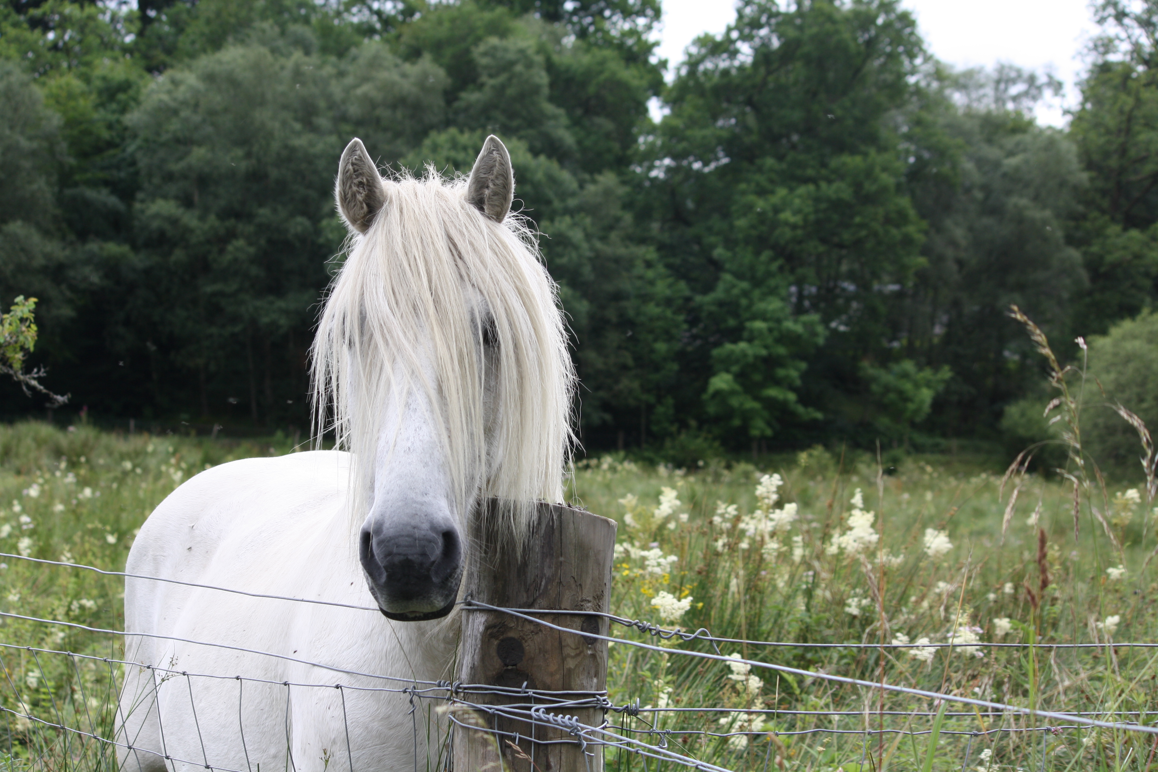 A Horse in a meadow in Scotland